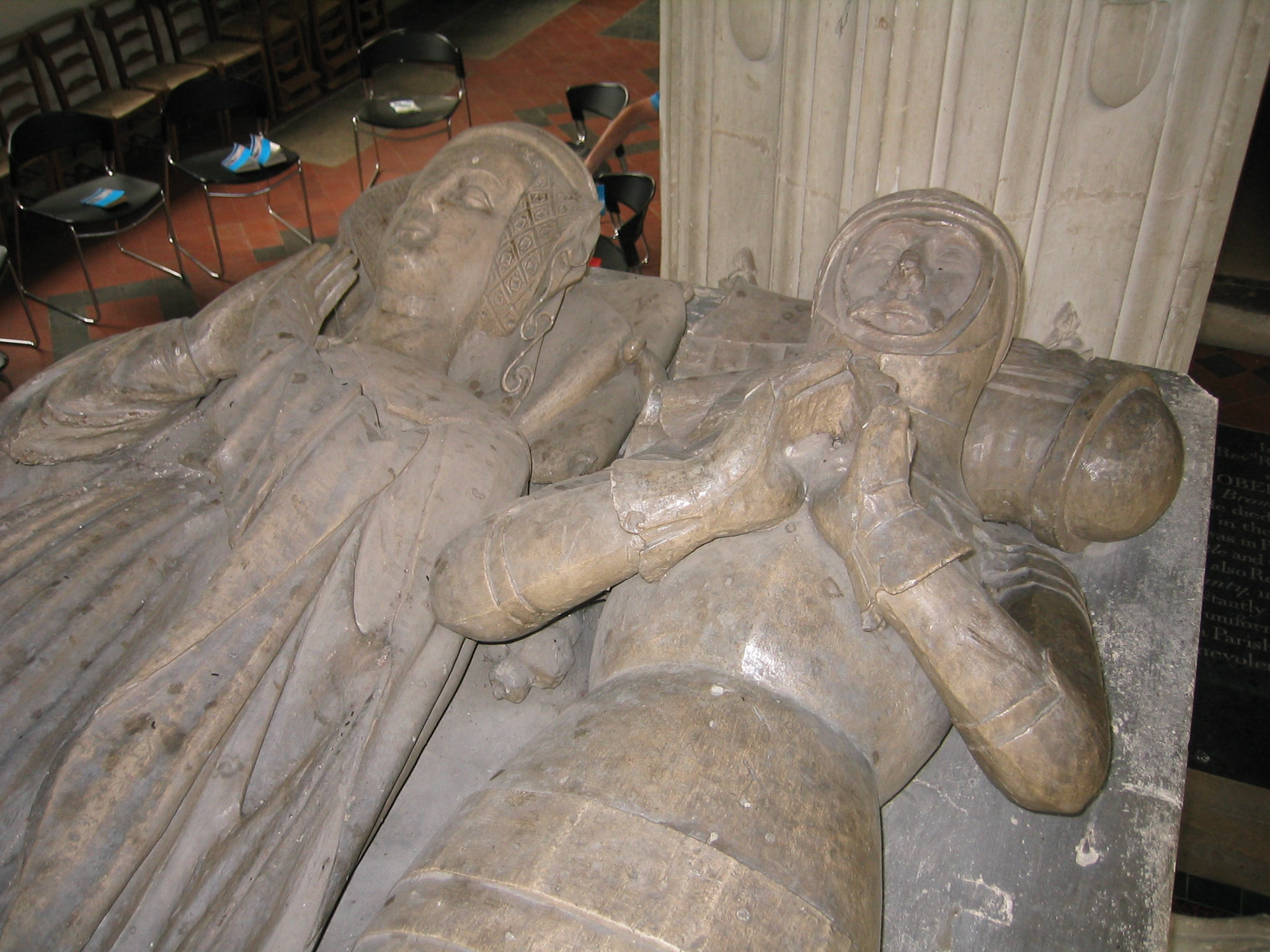 Tomb of Michael de la Pole and his wife Katherine de Stafford in St Andrew's parish church, Wingfield, Suffolk